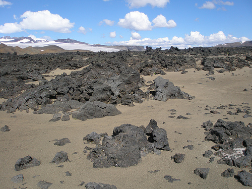 Lava fields of the Mount Edziza volcanic complex